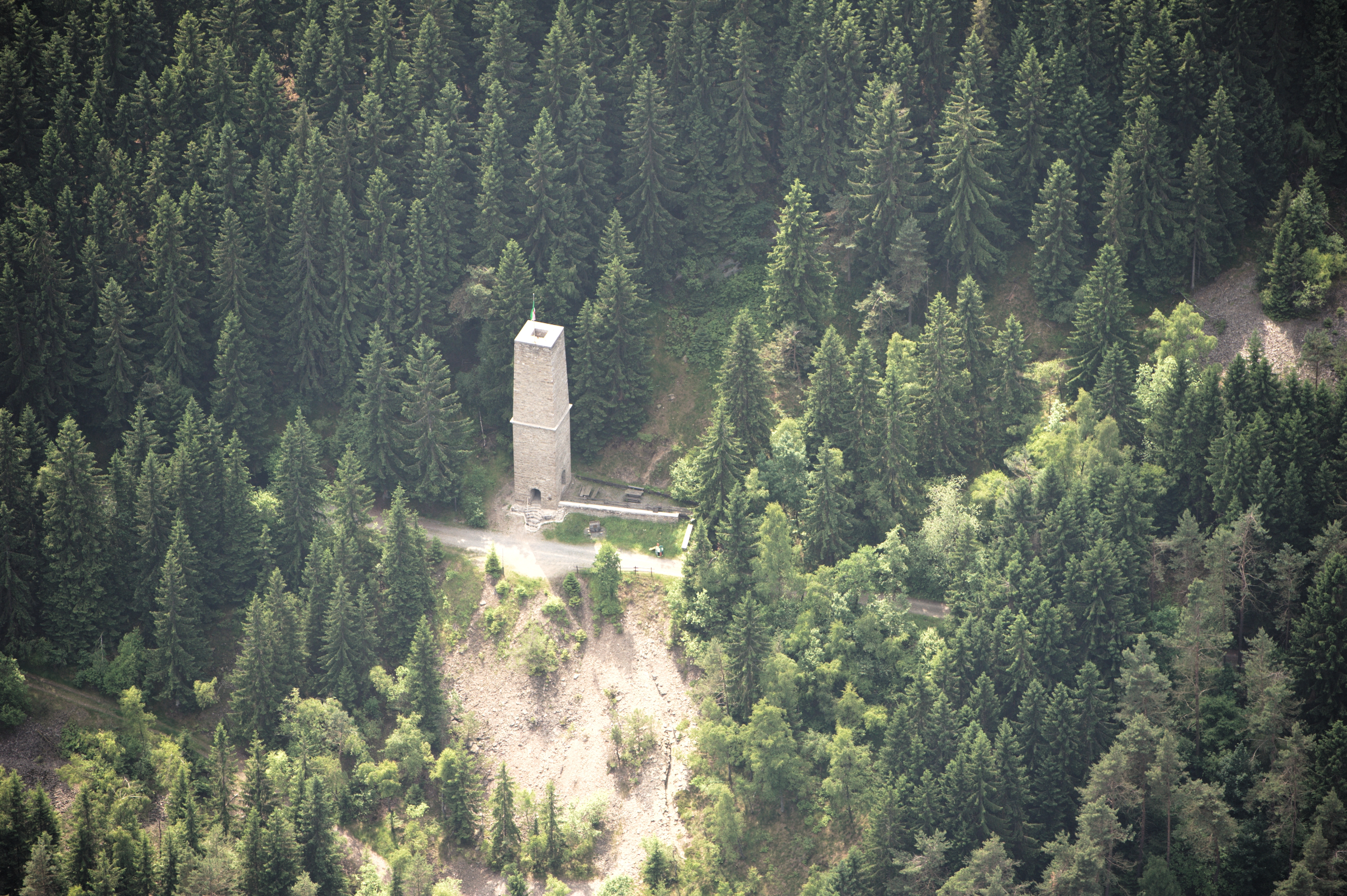 Fotoflug Sauerland-Ost – Rauchgaskamin Bestwig-Ostwig The making of this document was supported by the Community-Budget of Wikimedia Germany.